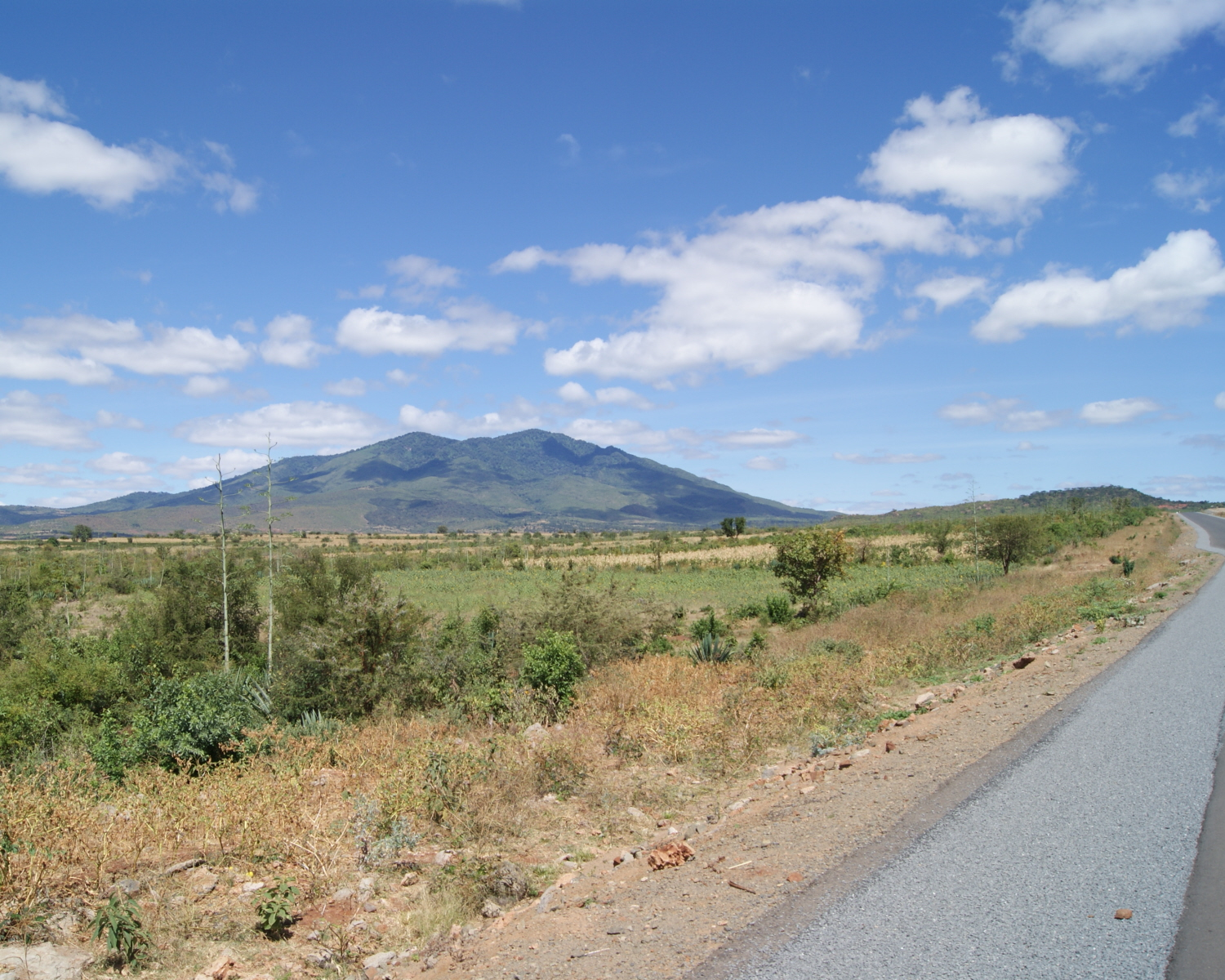 Mt Kwaraa